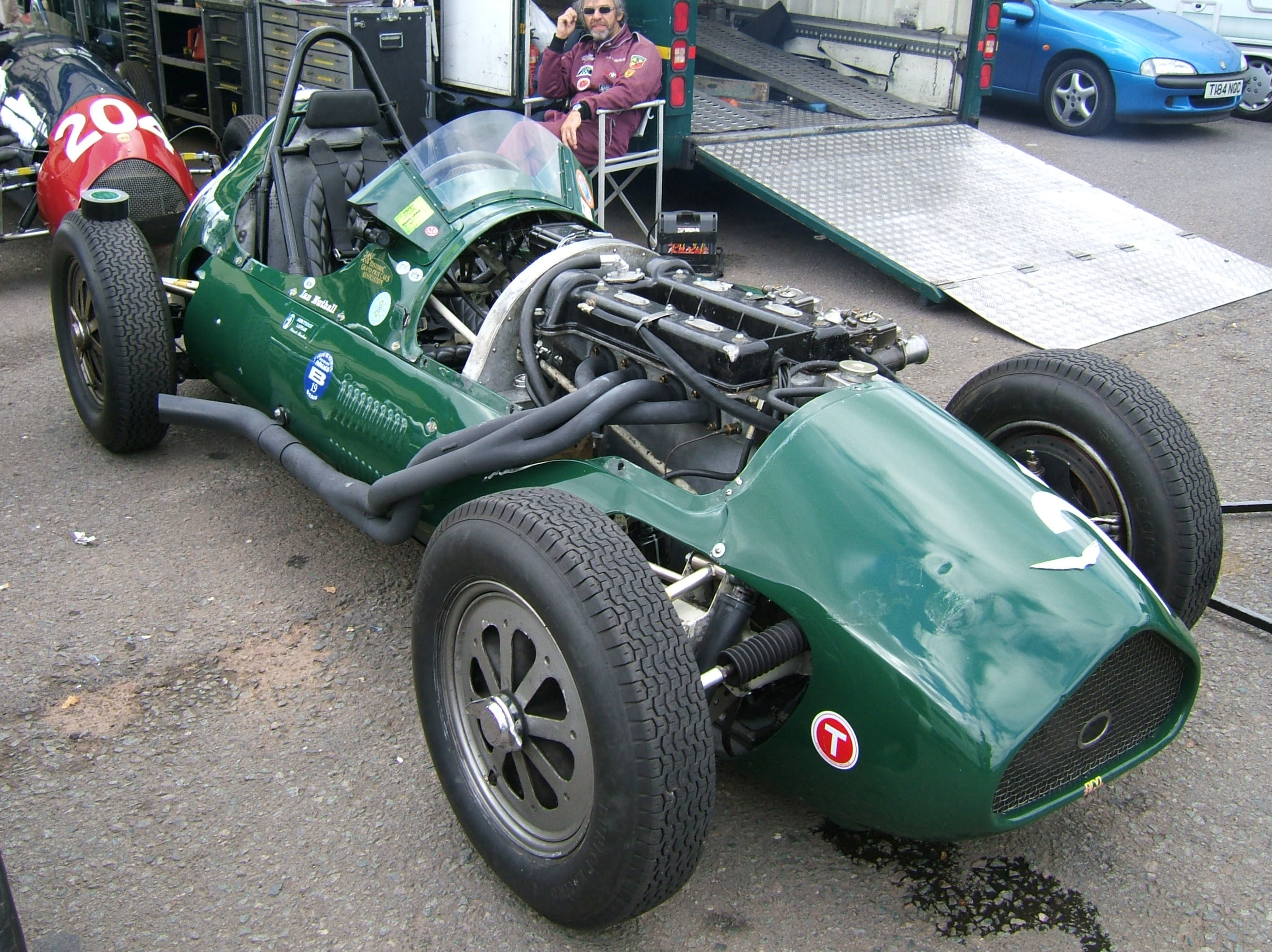 An Alta F2 racing car with its bonnet removed, photographed in the paddock at the VSCC SeeRed race meeting, Donington Park, September 2007.